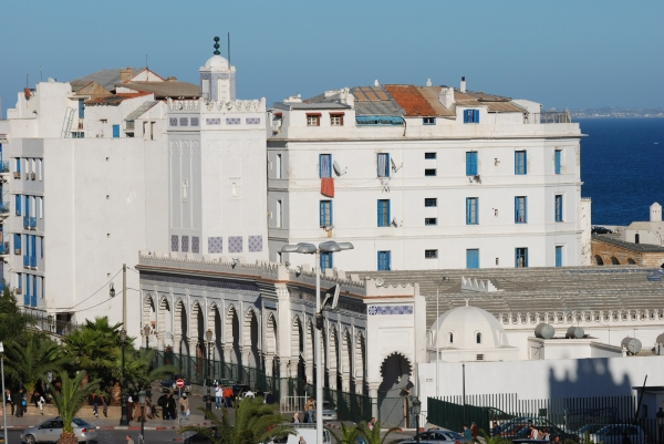 Great Mosque of Algiers